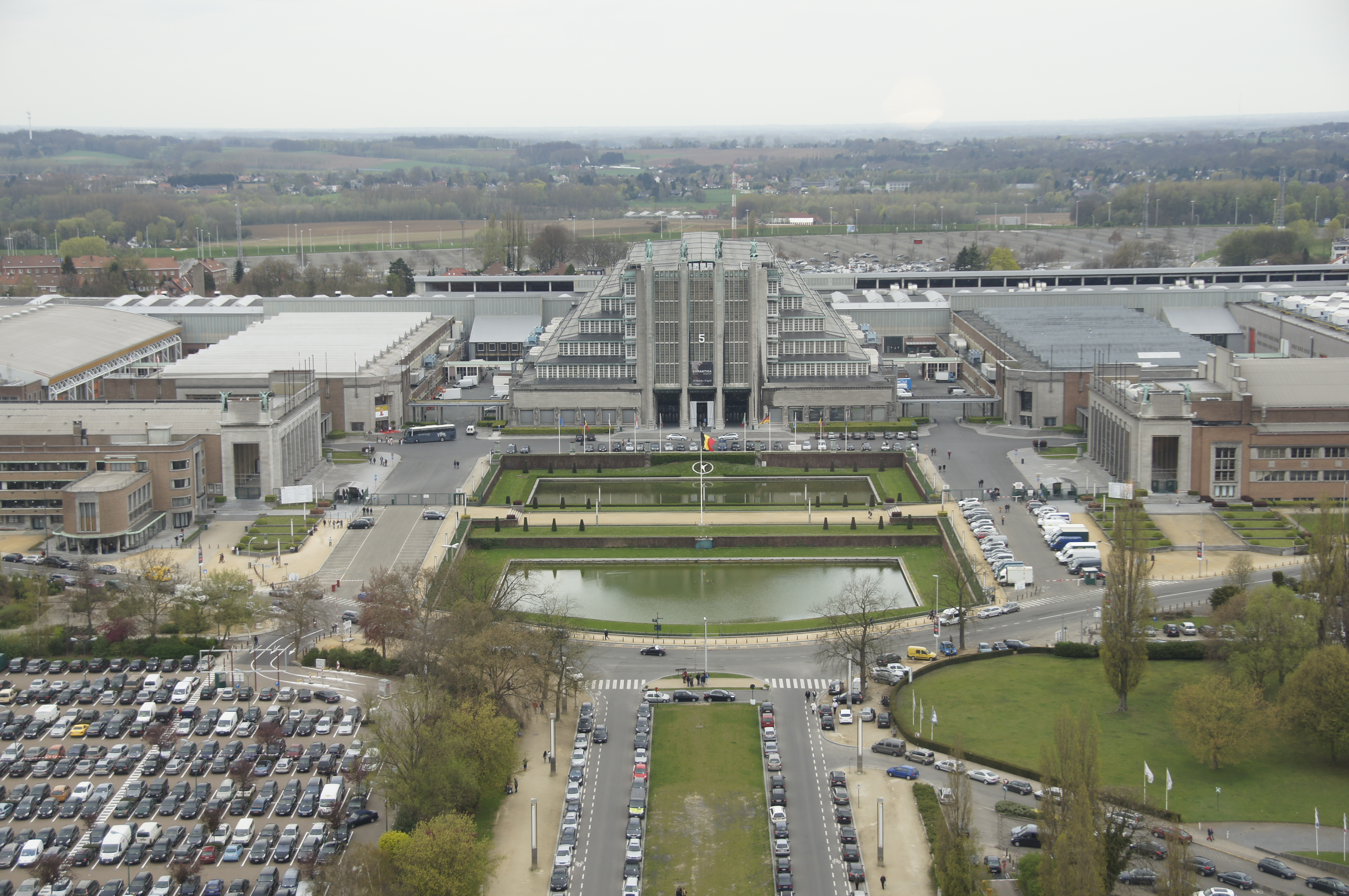 Brussels Expo.